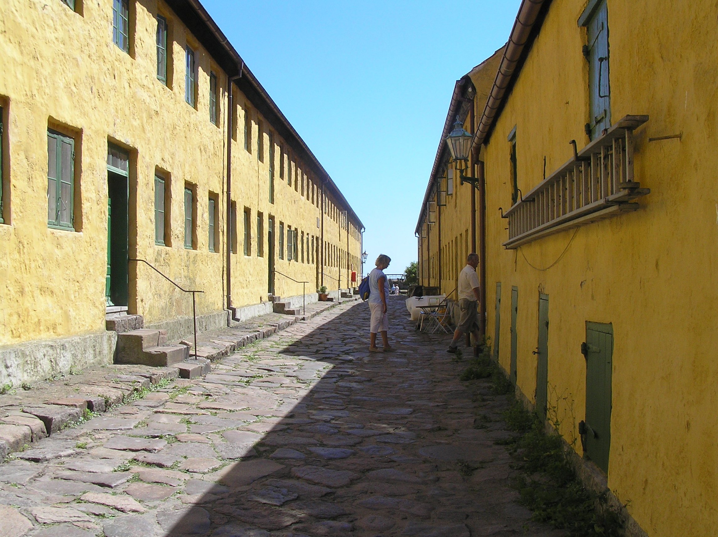 "The Street" at Christiansø, Denmark